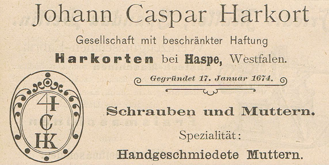 Advertisement with Monogram J.C.H.